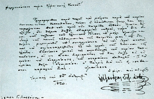 Letter of Alexandros Ypsilantis to Emmanuel Pappas